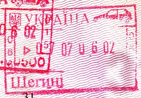 Passport stamp from Shehyni. Border crossing into Poland at Medyka.